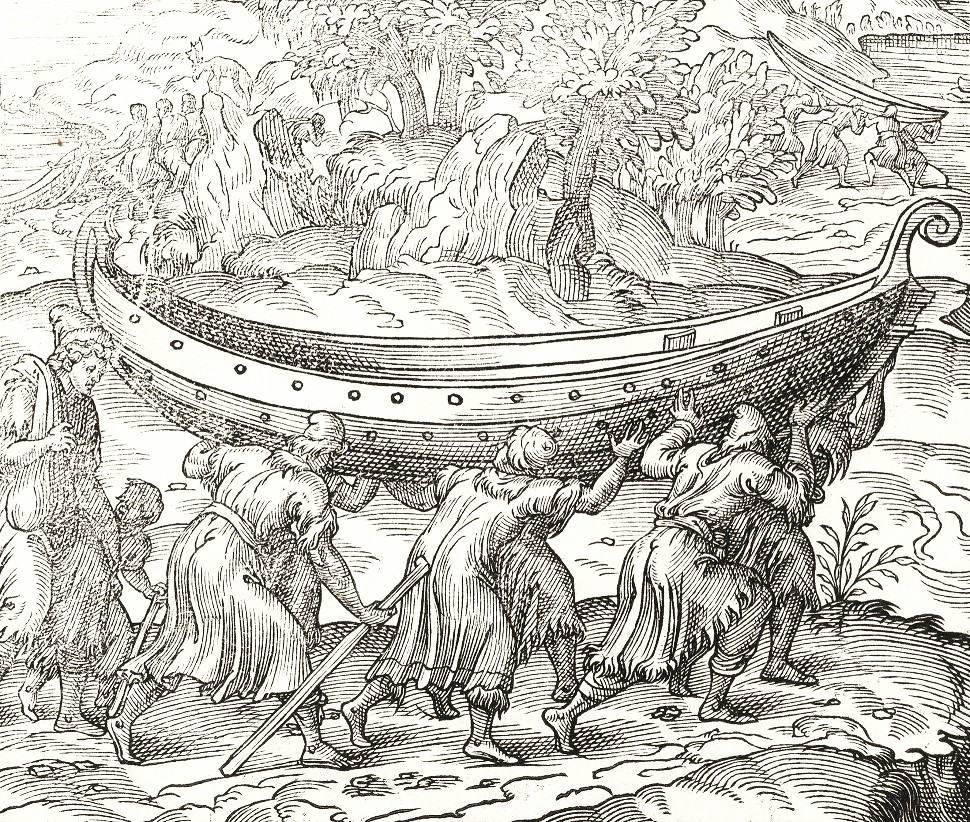 There is a text written with feather pen over the etchings. Translated from French to English it is written: "Lapons are carrying boats to other places". Before the time of photography culture was documented with art. If you want to use this picture please credit